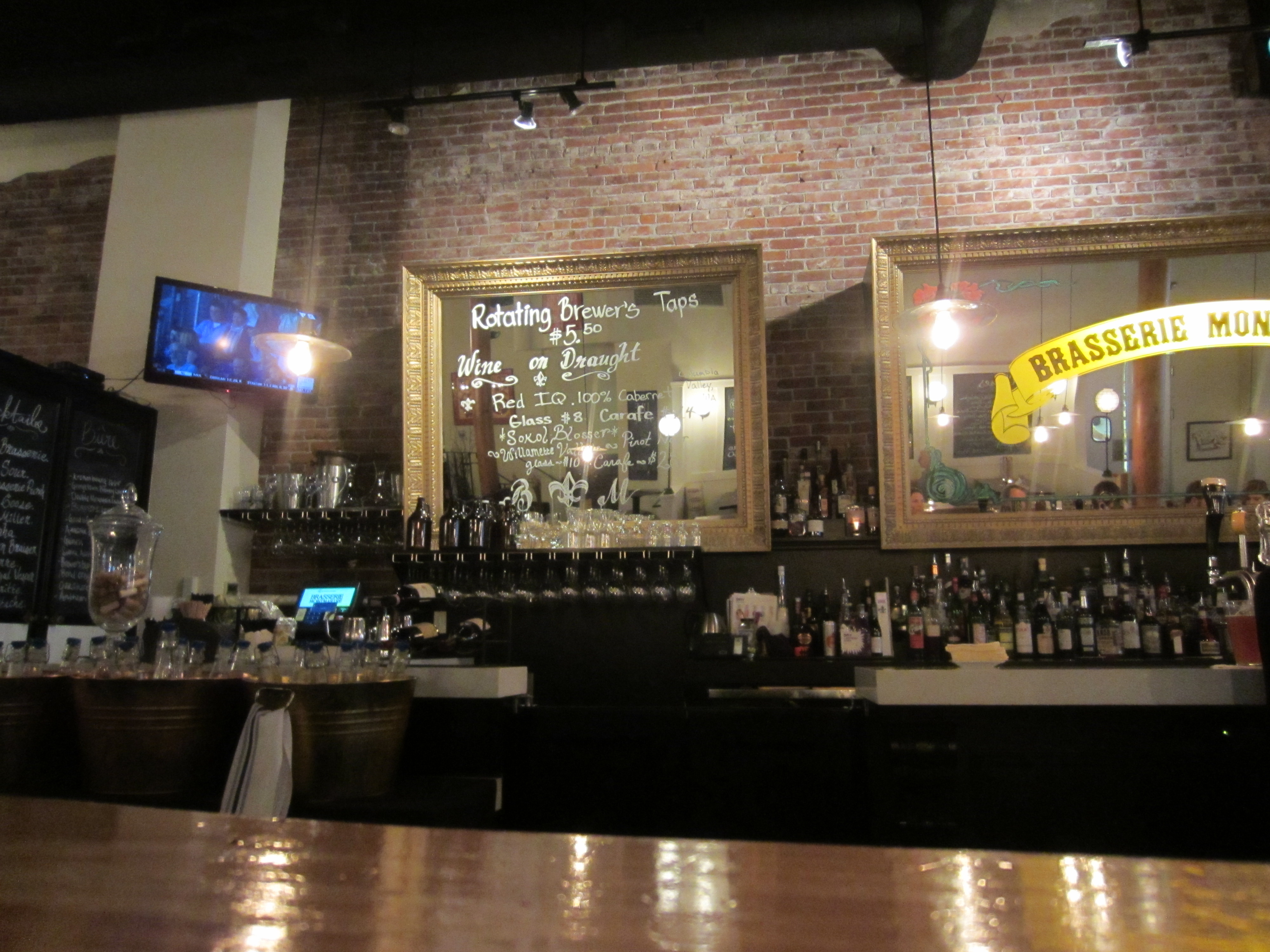 Brasserie Montmartre, Portland, Oregon (2013)